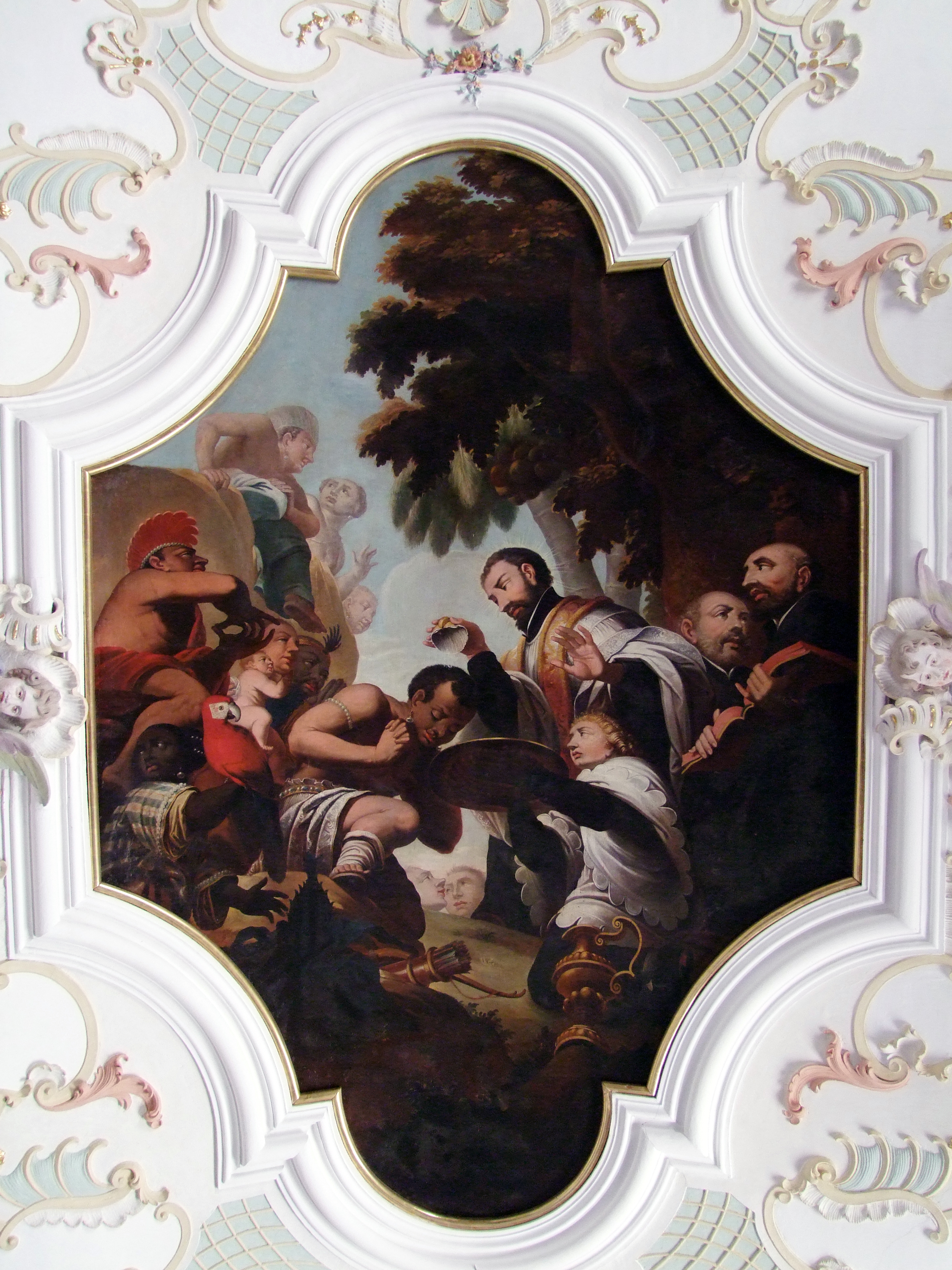 Franz Xavier baptizing a heathen; ceiling painting in Franz Xavier chapel of Mindelheim.